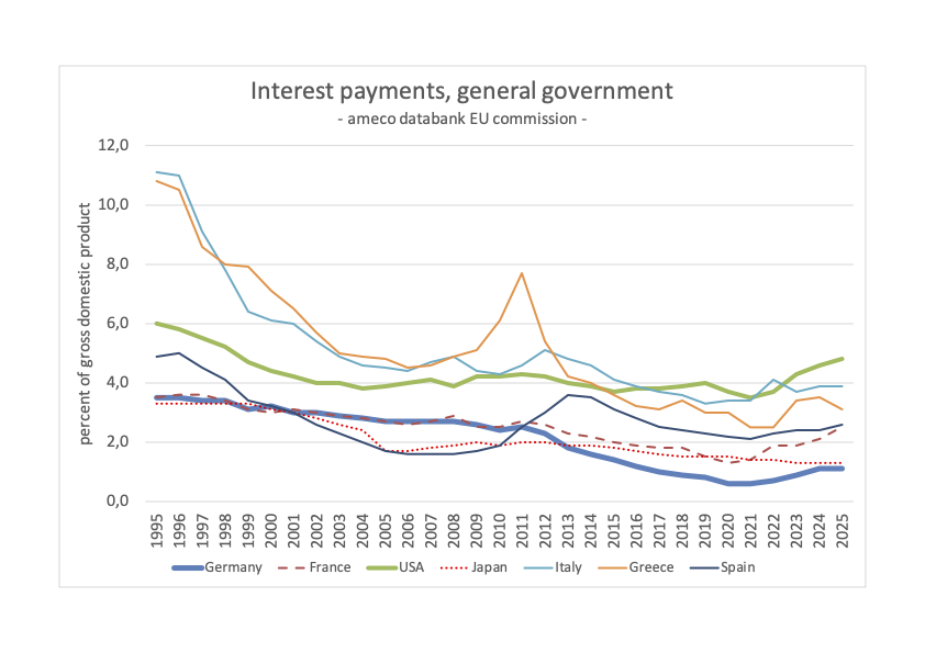 actual interest payments by general government in percent of GDP, selected countries. Source of data: Ameco data bank.